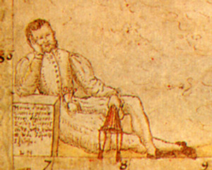 Laurence Nowell's self-portrait from his 1564 pocket atlas. Downloaded from with modification (cropping)